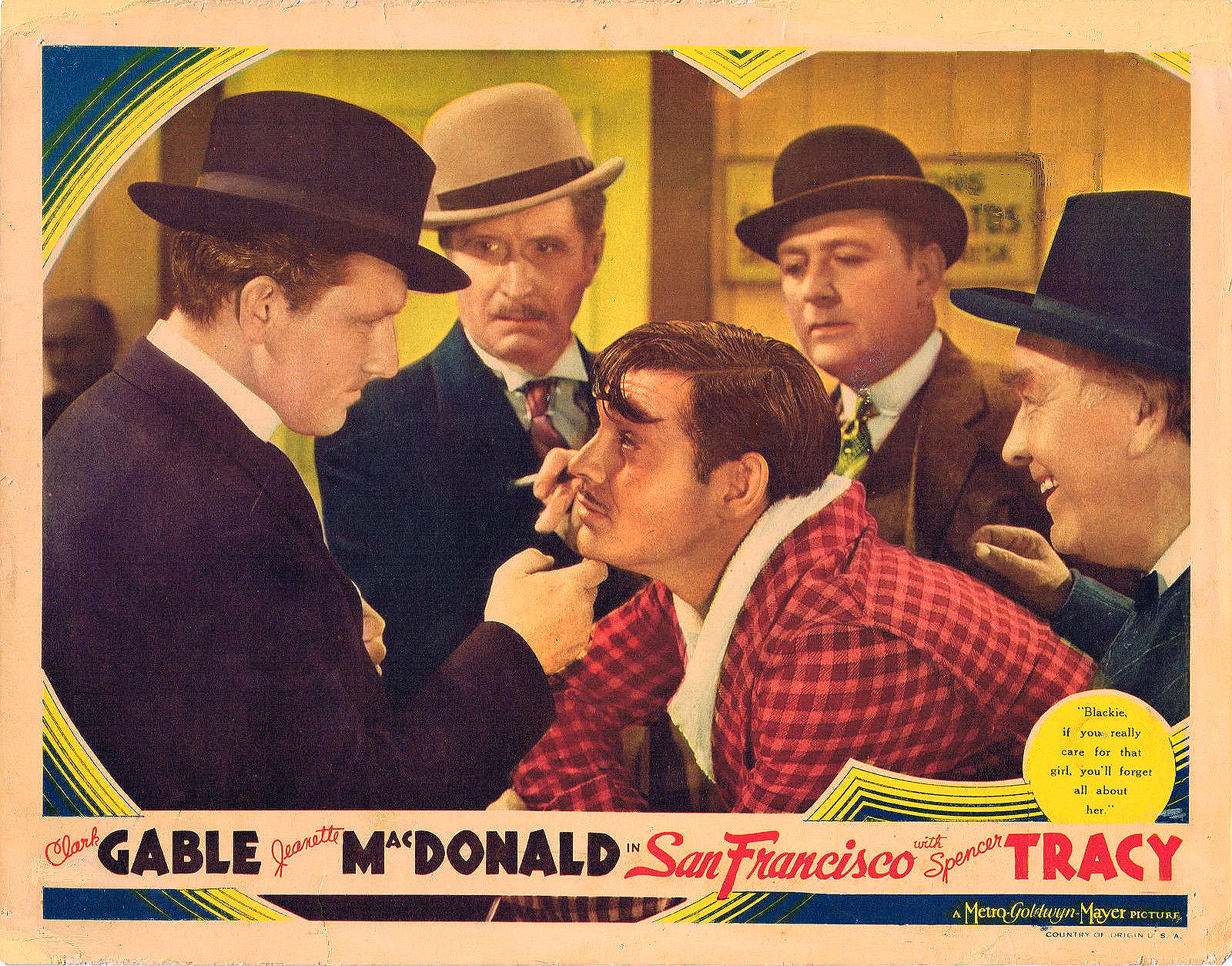 Lobby card for the 1936 film San Francisco.